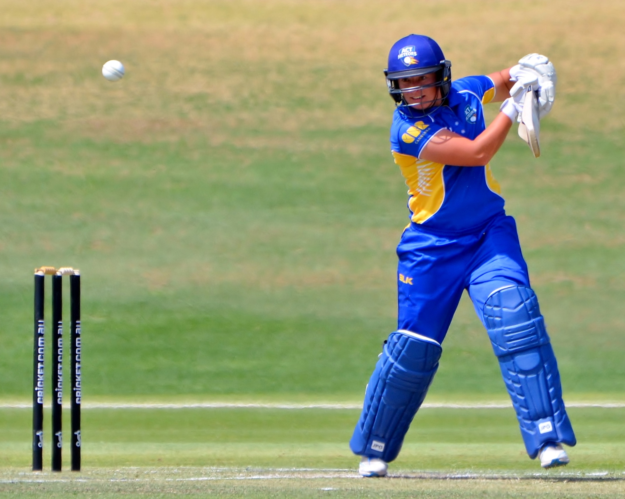 All-rounder Hayley Jensen batting for the ACT Meteors against the New South Wales Breakers, in a WNCL top of the table clash at Murdoch University Sports Oval in Perth.